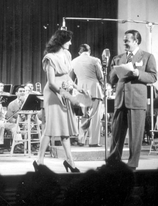 Command Performance, c.1944. Armed Forces Radio Show, CBS Studio, Hollywood. L-R; Jane Russell, Bob Hope; BG: Major Meredith Willson, AFRS Musical Conductor, AFRS Band